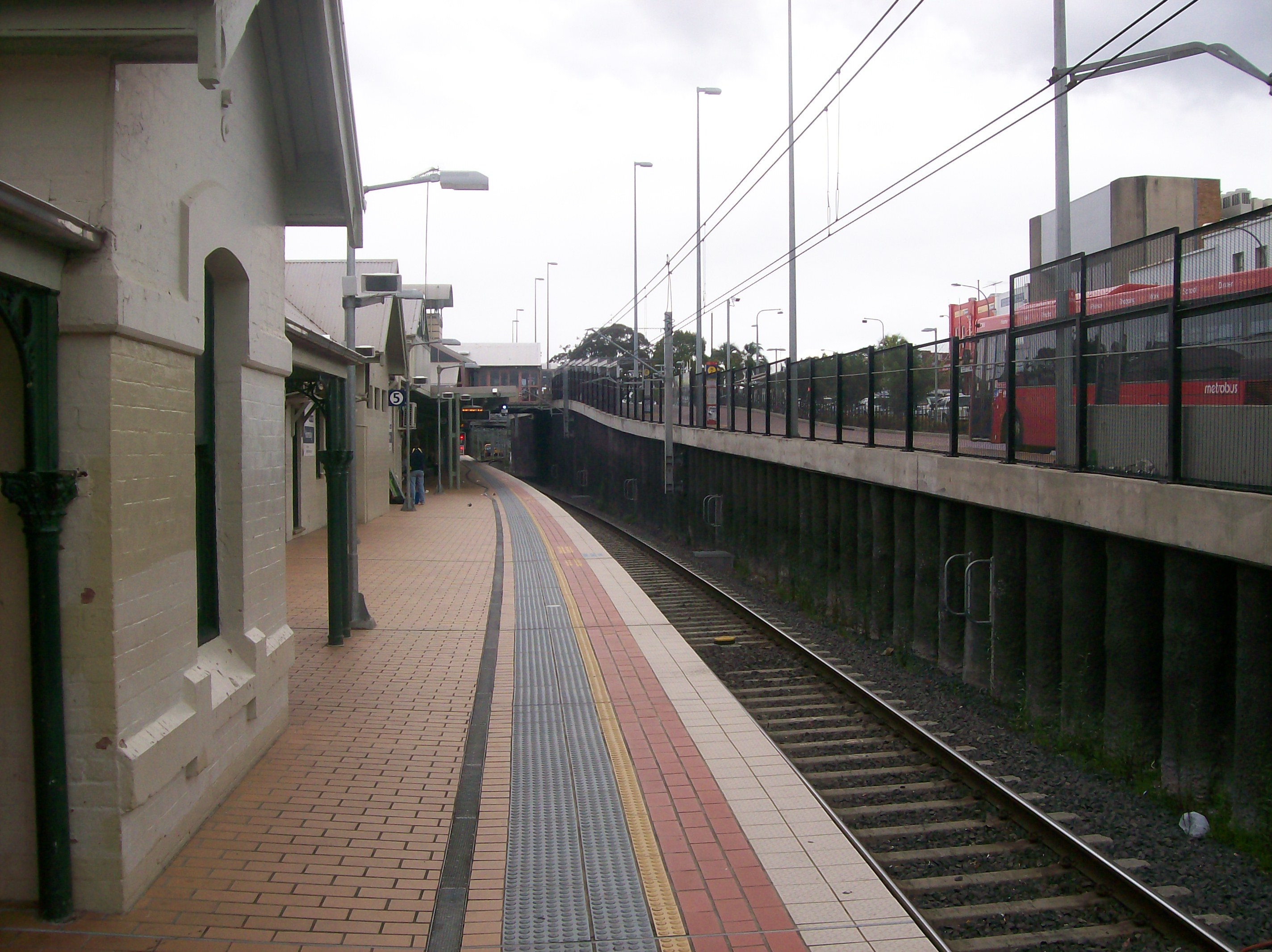 Hornsby railway station platform 5